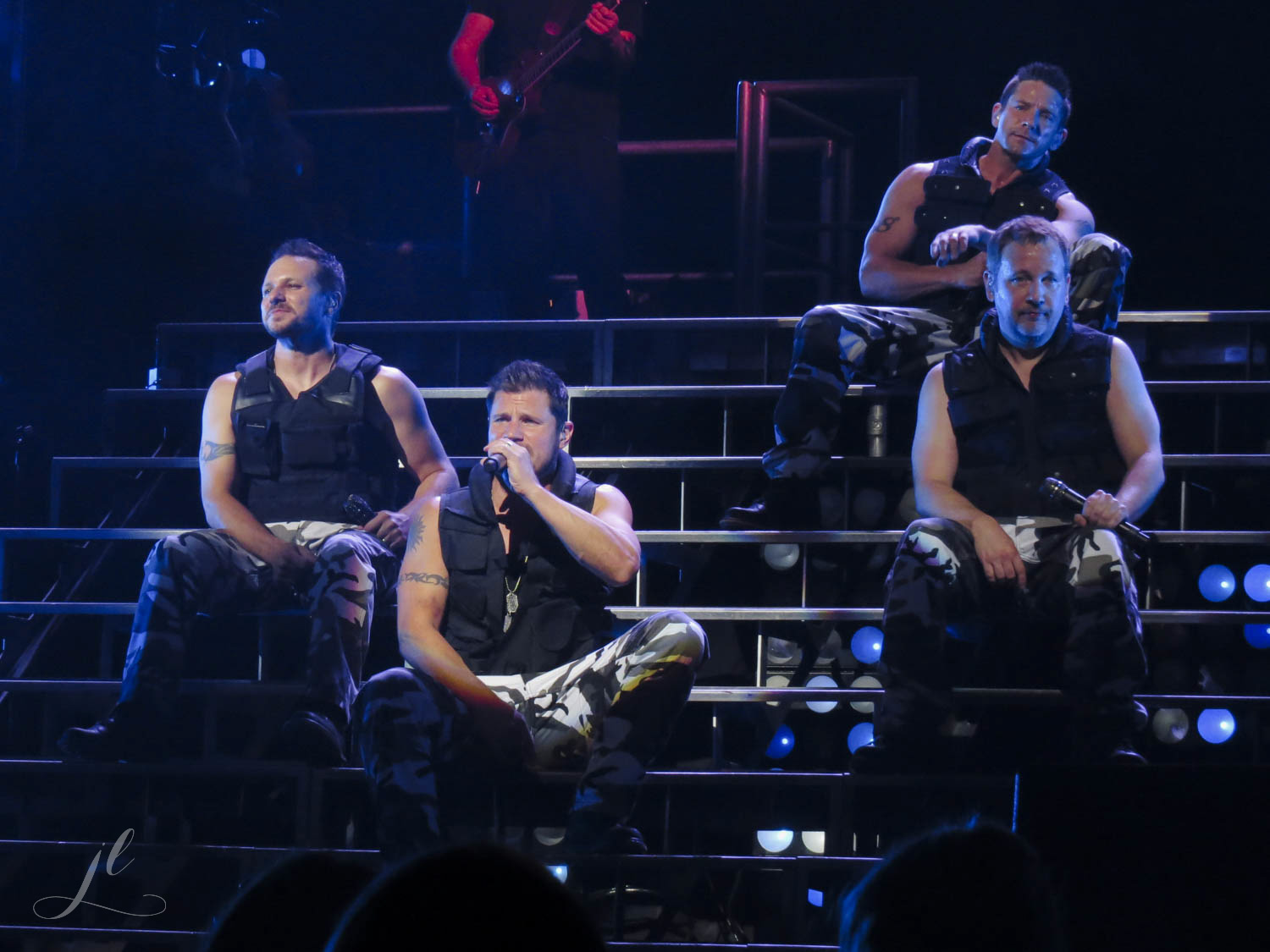 98 Degrees performs during their set on the My2K Tour stop in Broomfield, Colorado on August 21, 2016.